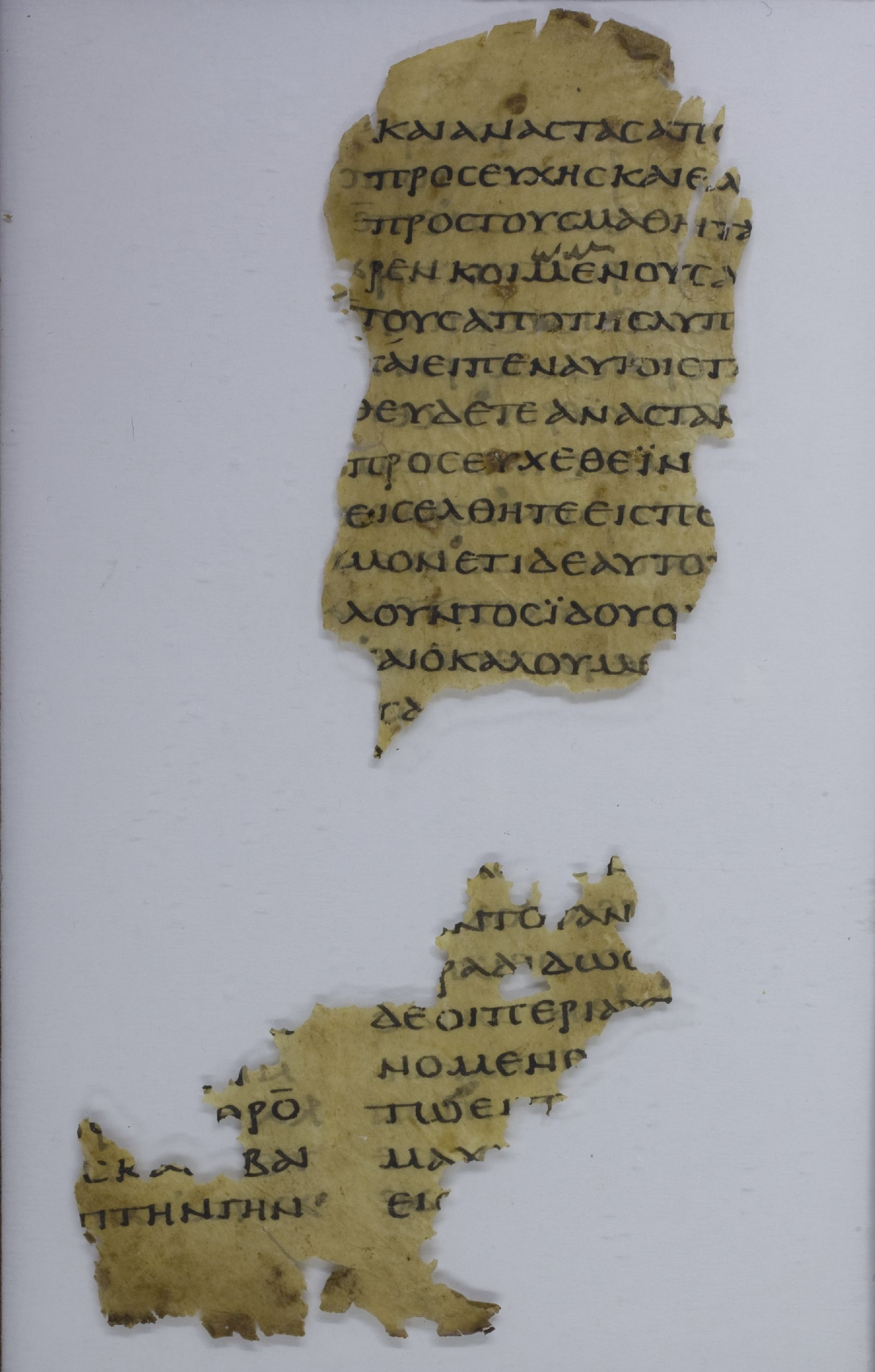 fragments a and b (recto) of the codex 0171, with the text of Luke 22:44-50